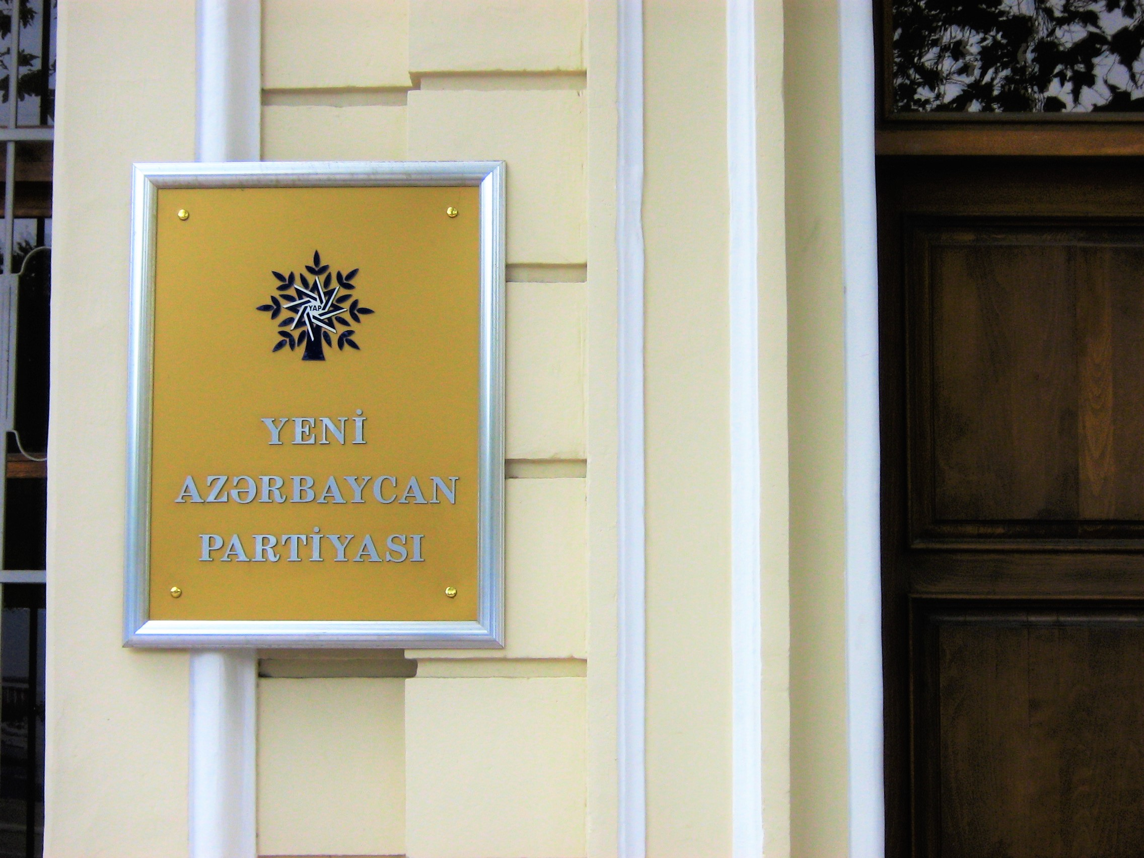 New Azerbaijan Party's Head Office in Baku